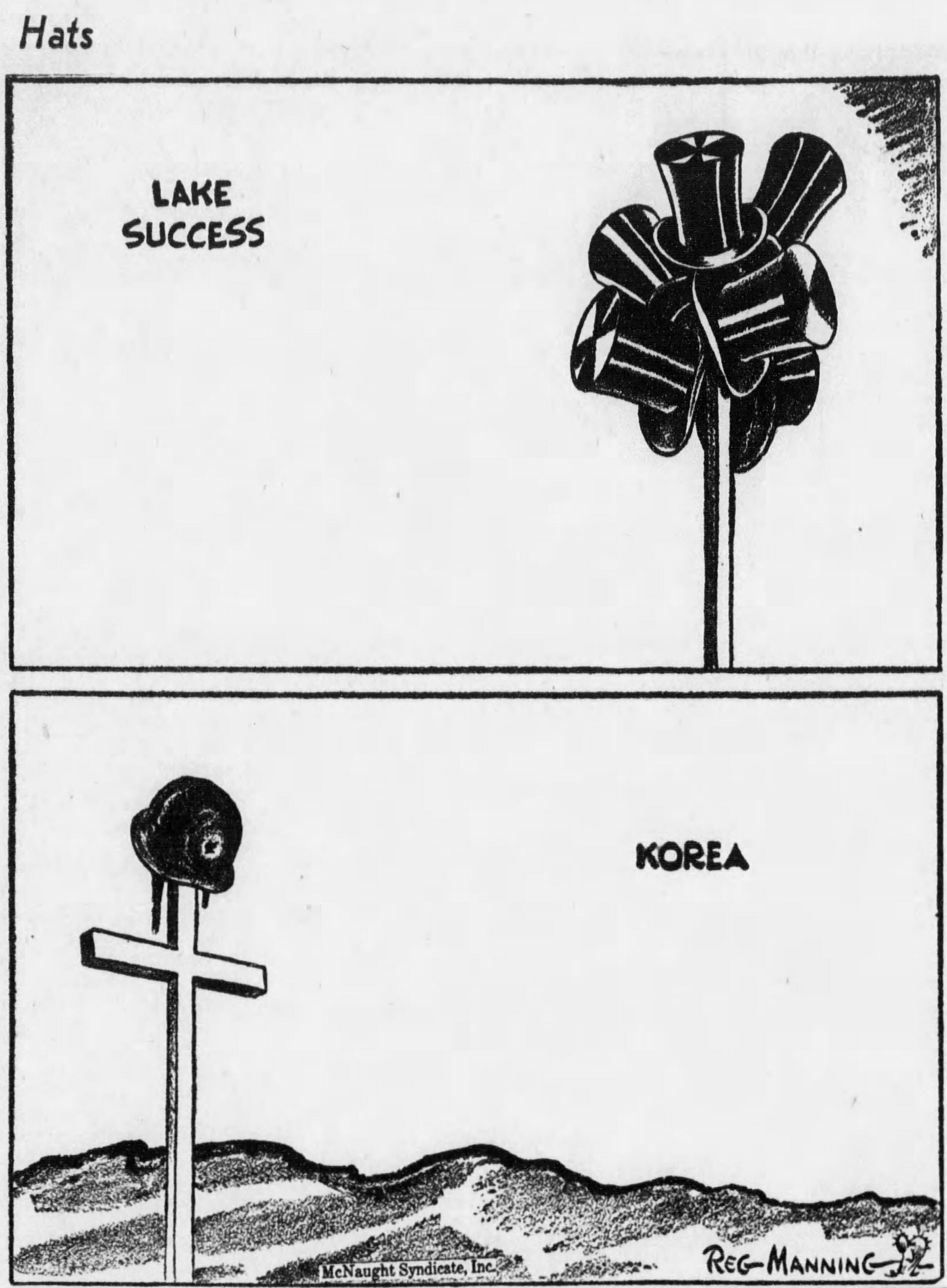 "Hats", an editorial cartoon commenting on the Korean War and the failure of the United Nations (headquartered at Lake Success) to prevent it. Winner of the 1951 Pulitzer Prize for Editorial Cartooning.